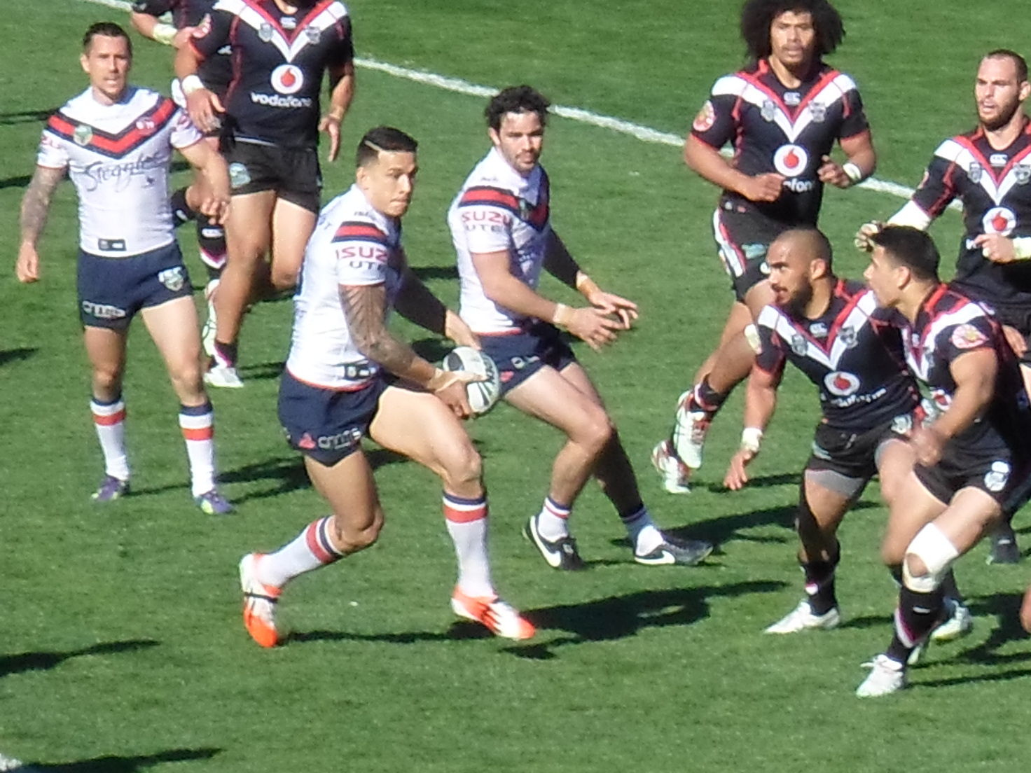 Roosters and All Blacks maestro Sonny Bill Williams on attack, versus the Warriors at Mt Smart Stadium, round 24. Teammates Mitchell Pearce and Aidan Guerra are to the left and right of him, respectively.